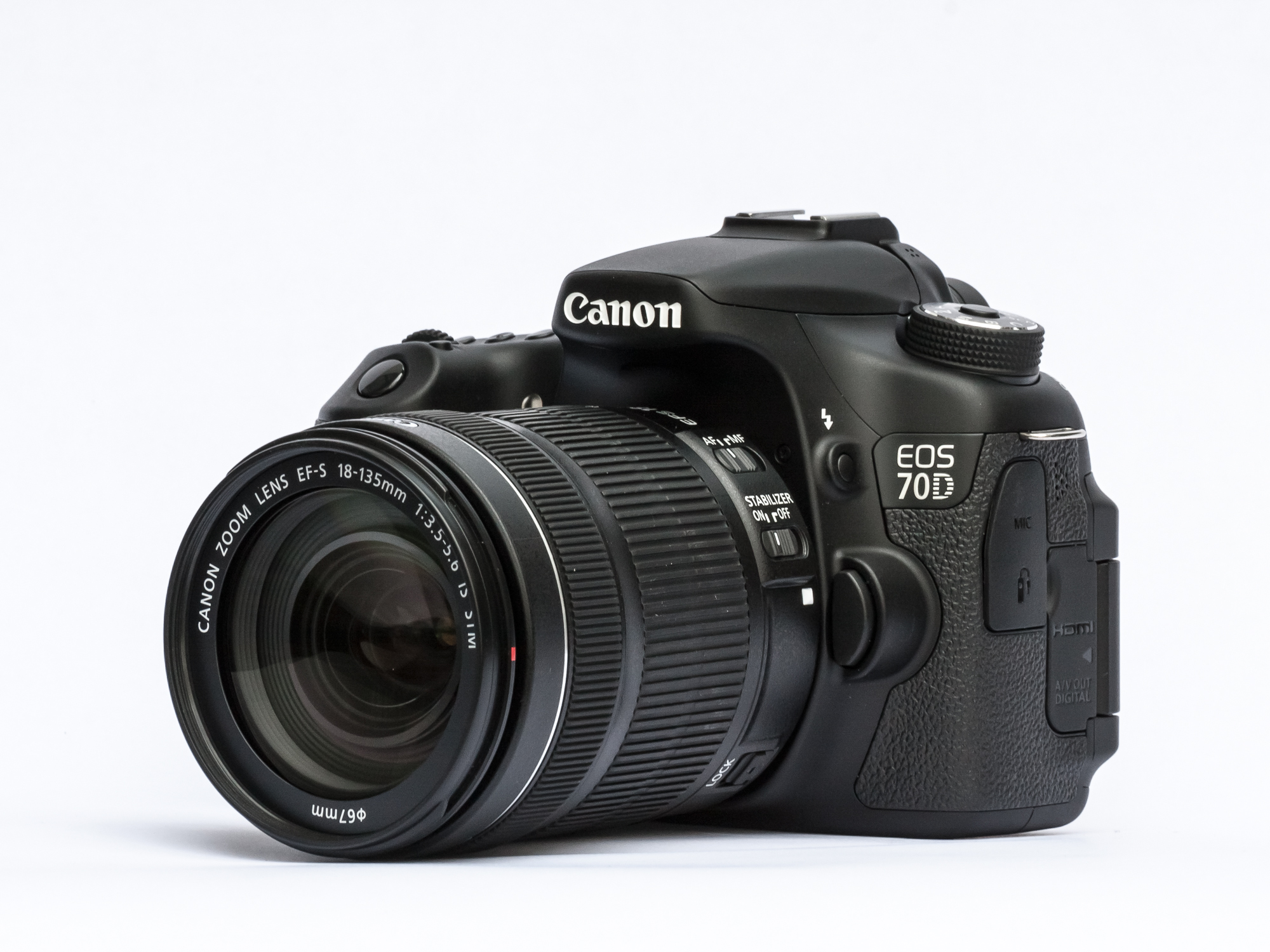 Canon EOS 70D body with EF-S 18-135 mm f/3.5-5.6 IS STM